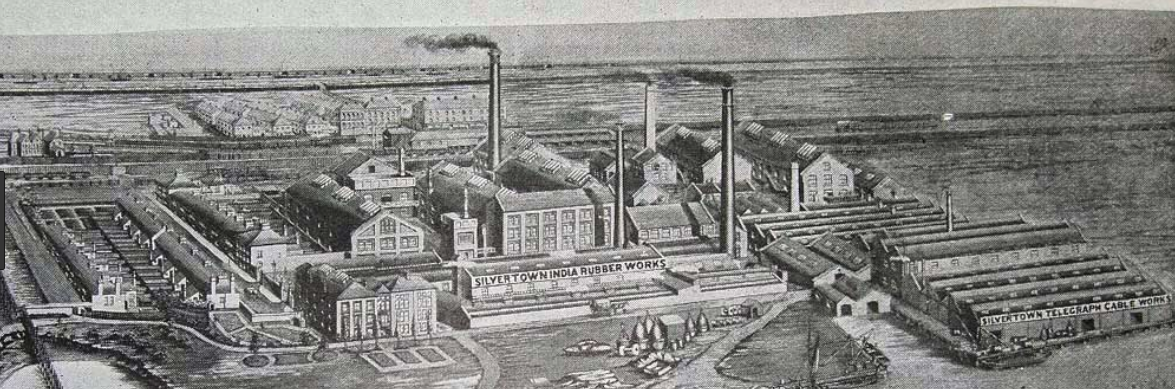 Thameside factory depicting building and chimneys belching smoke